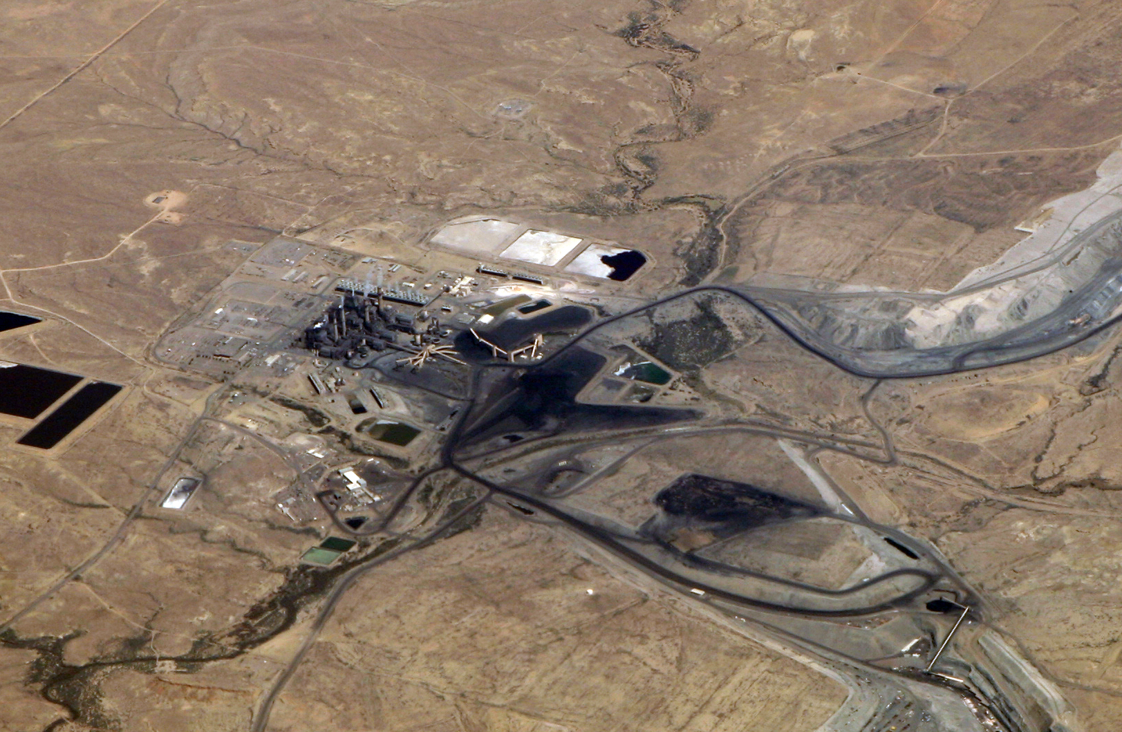 The San Juan Generating Station, flanked by its surface coal mines on the desert north of the San Juan River west of Farmington, New Mexico. The operators of the station recently settled a $10 million claim with the Sierra Club over environmental concerns. ("San Juan Mine and San Juan Generating Station settle case at $10M." (2012-03-30) The Westerner (blog).